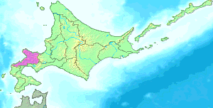 Shiribeshi shinkokyoku subpref